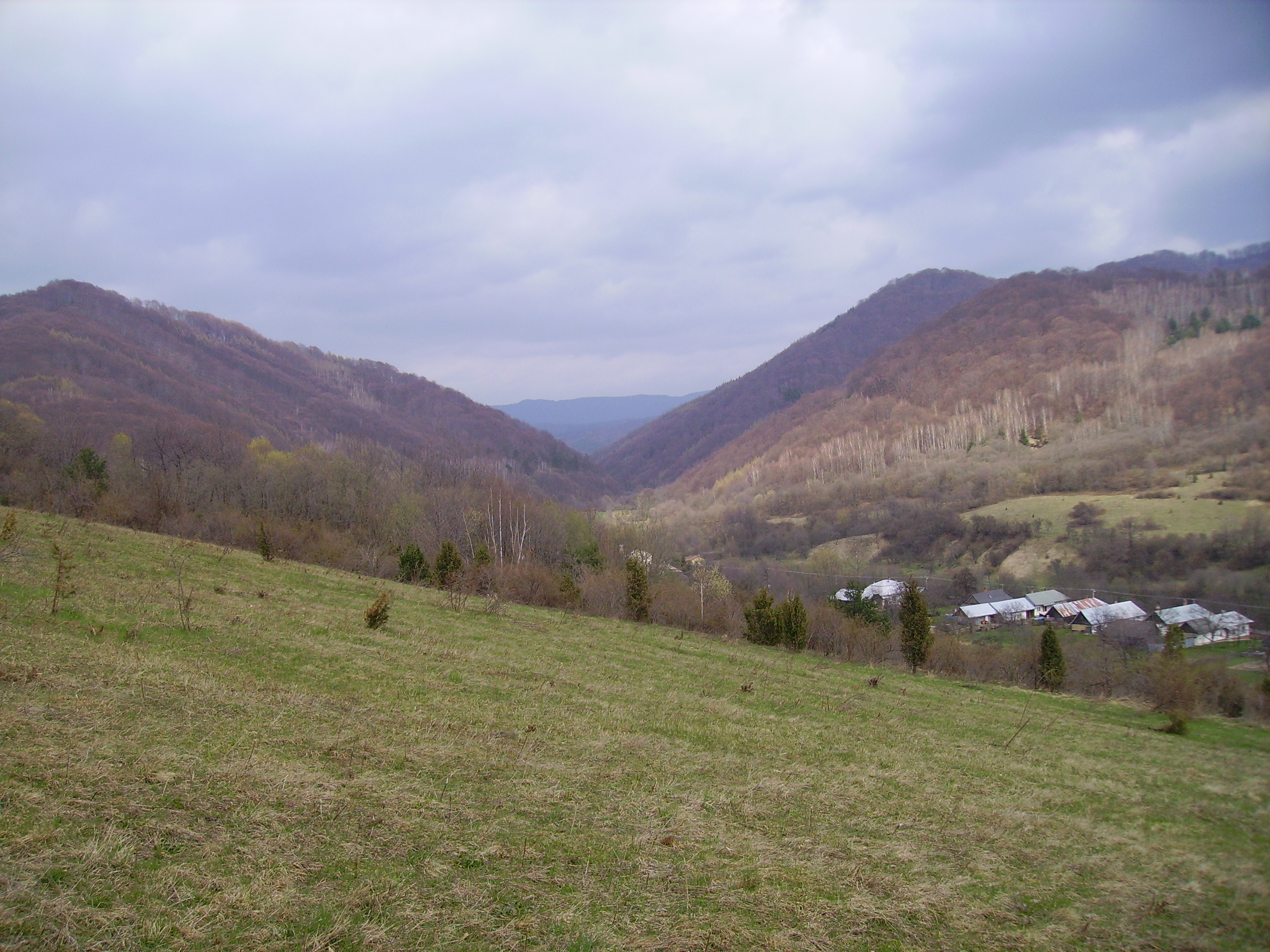 Village Osadne. sight to the nord to slovak-polish border.